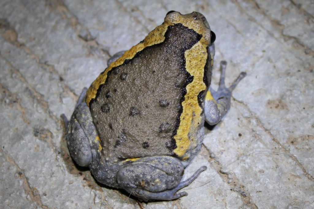 Taken at Lions Nature Education Centre.